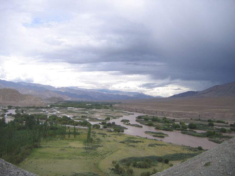 View of Ladakh, India during the monsoon season.